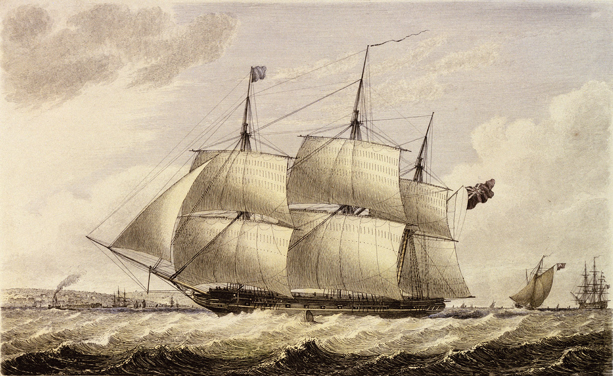 The Challenger commanded by Captain FitzClarence, sailing from Portsmouth with Dispatches for Lisbon, Oct 31. 1827 Coloured etching and engraving of The Challenger (1826), other versions of same image (uncoloured): PAD8017 and PAI3111. Also Plate 16 in the volume of marine pictures by Moses "Visit of William the Fourth when Duke of Clarence as Lord High Admiral to Portsmouth in the year 1827 with views of the Russian squadron" published in 1840 by Ackermann & Co. Inscribed: "The Challenger, commanded by Captain Fitzclarence sailing from Portsmouth with Dispatches for Lisbon, Oct 31. 1827". When William IV was still Duke of Clarence in 1827, he became Lord High Admiral and, in July, to mark his authority, inspected the fleet at Spithead. The following month the Duchess of Clarence viewed the Russian squadron. Captain Fitzclarence was one of the illegitimate children of the Duke of Clarence by his mistress, the actress Dorothea Jordan.